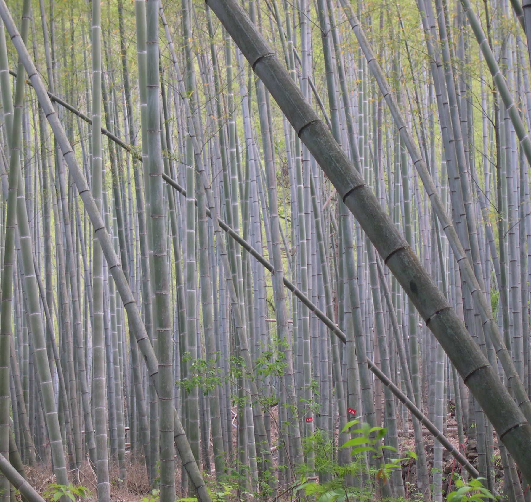 Ein Bambuswald bei Tian Mu Shan. Der Wald schimmert blau. A bambooforest near Tian Mu Shan. The forest looks slightly blue. Fly